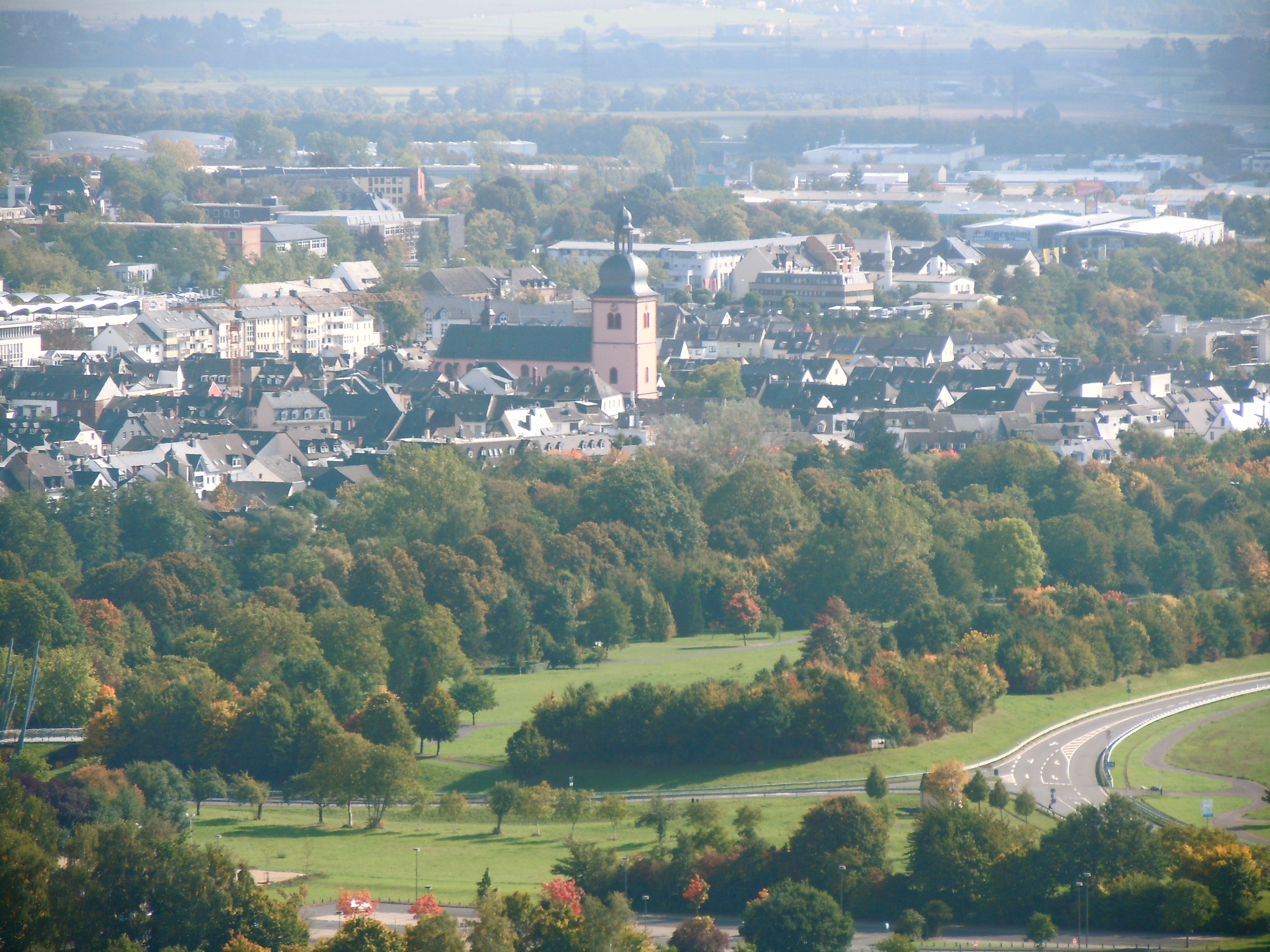 Wittlich view.